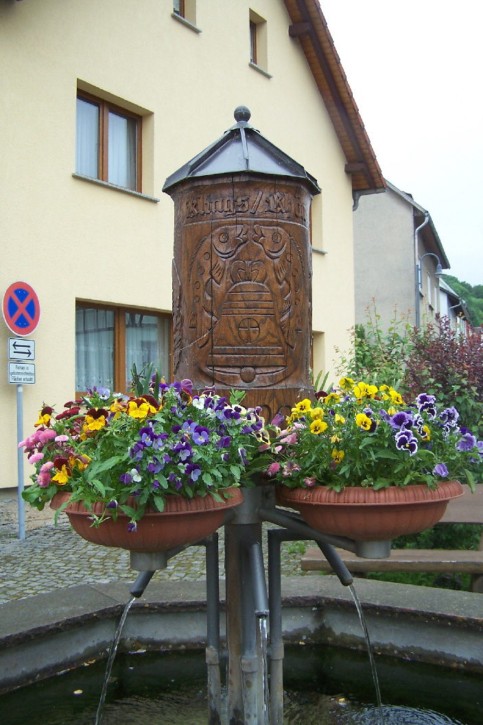 A eyecatcher in Klings - handmade wooden figures.